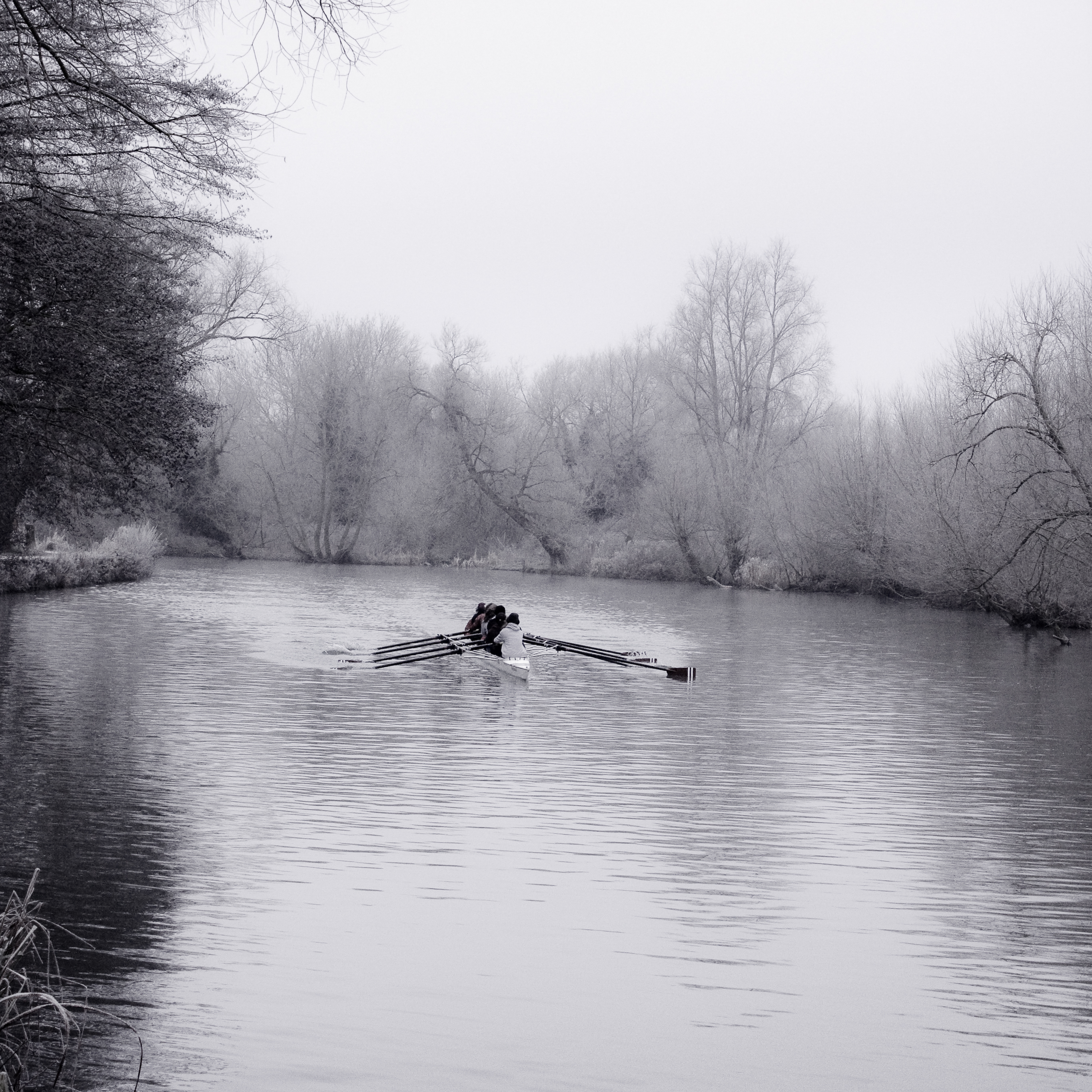 Rowing on the Isis